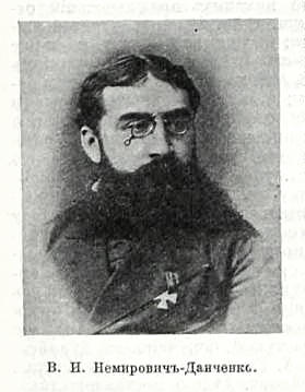 Vasily Nemirovich-Danchenko